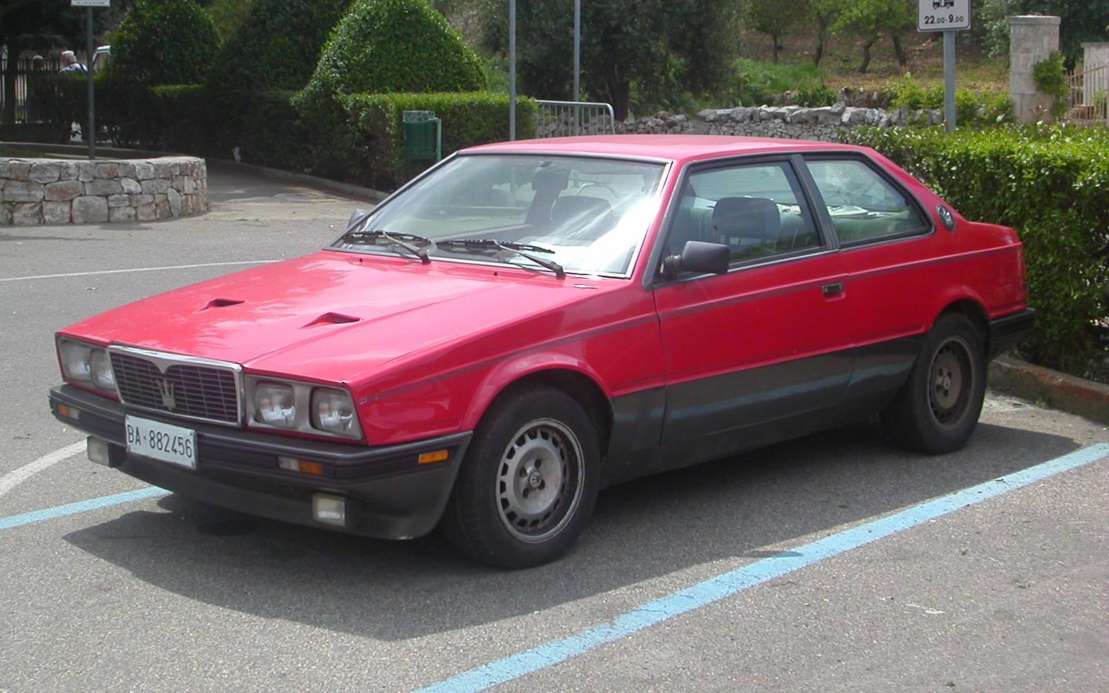 Maserati Biturbo S in Alberobello, Italy. Photographed on 2nd May 2007.